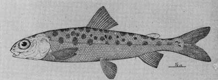 Mountain whitefish, Prosopium williamsoni